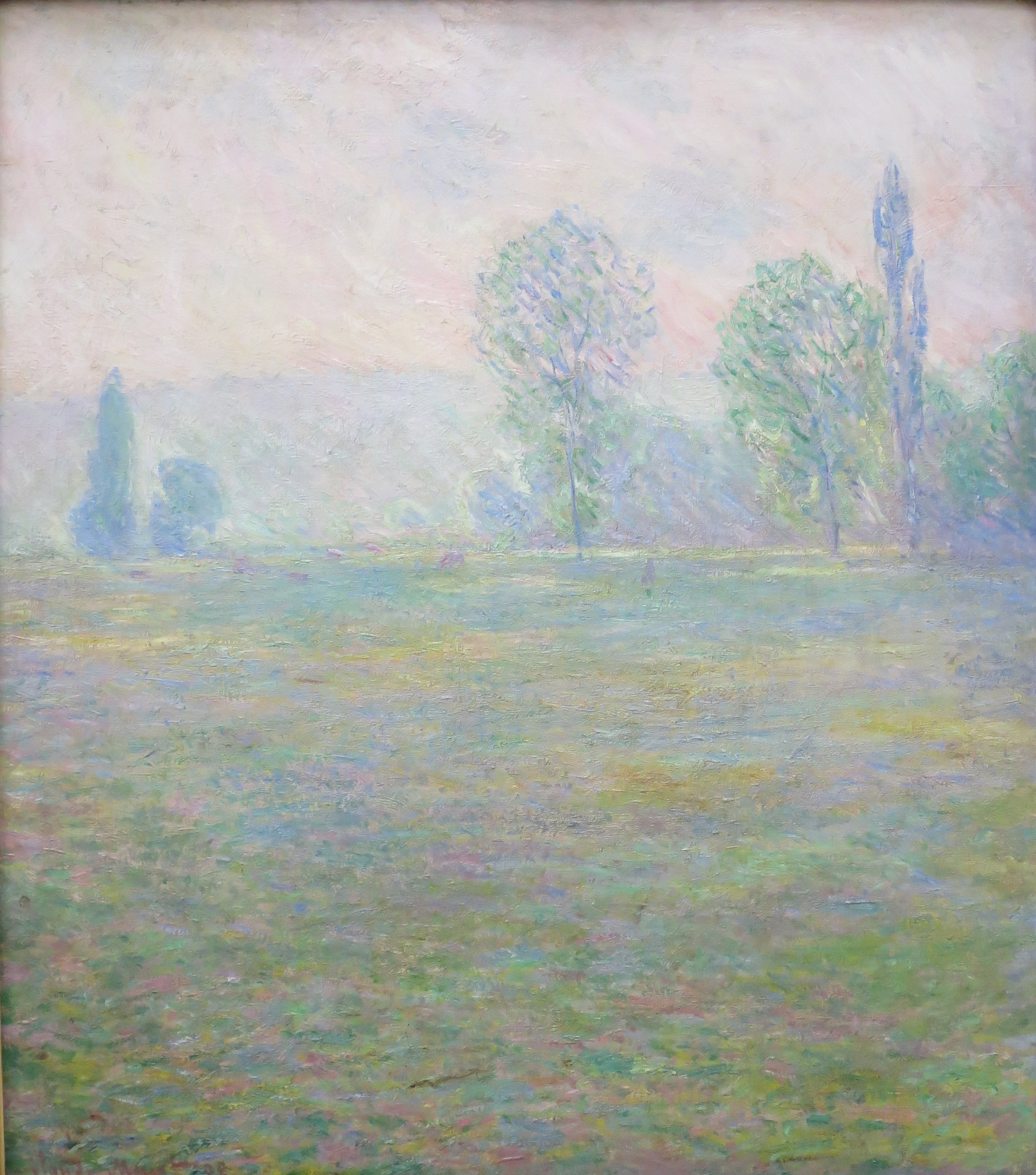 'Meadows at Giverny' by Claude Monet, 1888, Hermitage